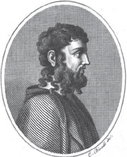 Dicaearchus of Messana, Greek Sicilian philosopher, cartographer, geographer, mathematician